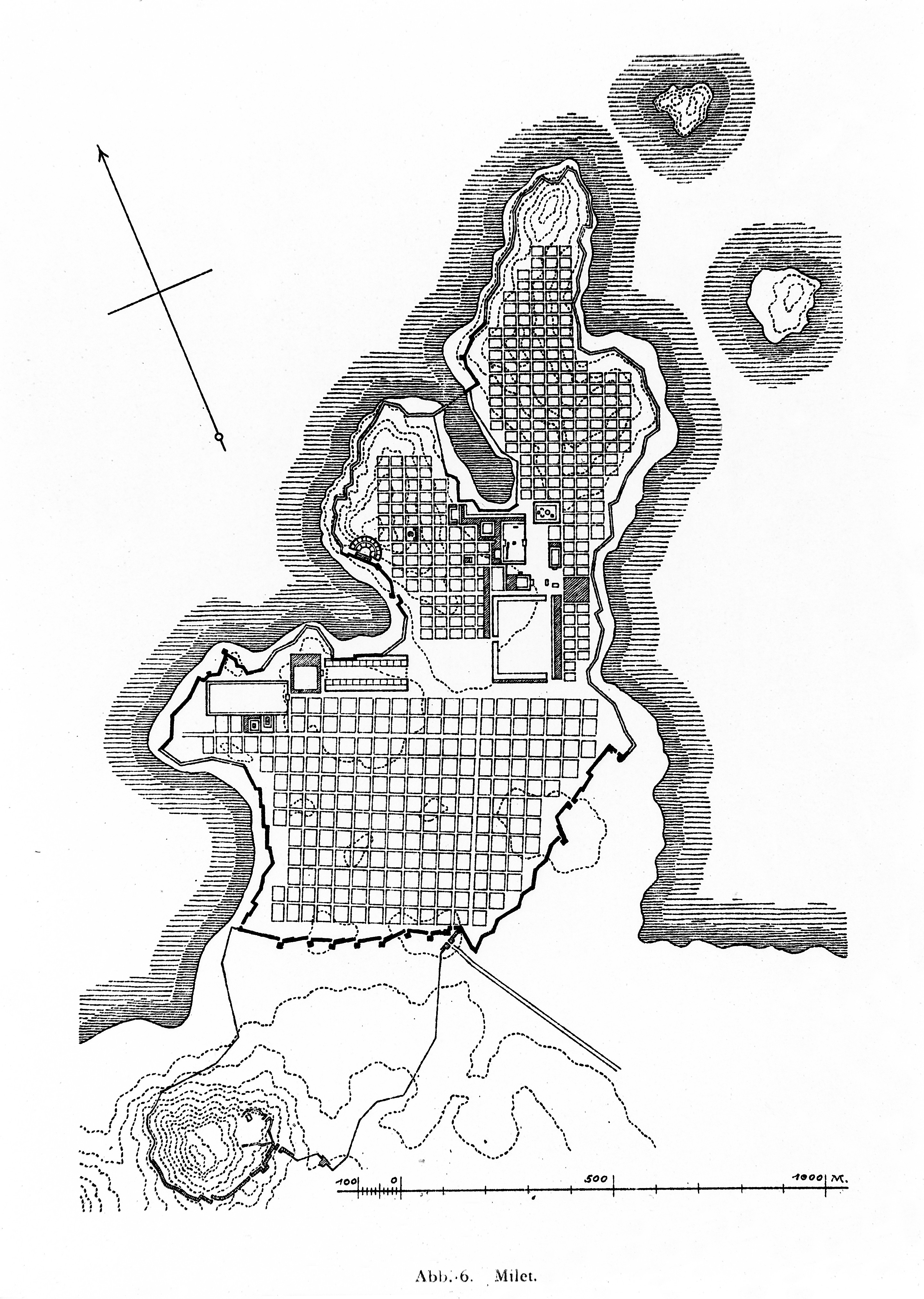 Plan of Miletus Wellcome Images Keywords: Archaeology